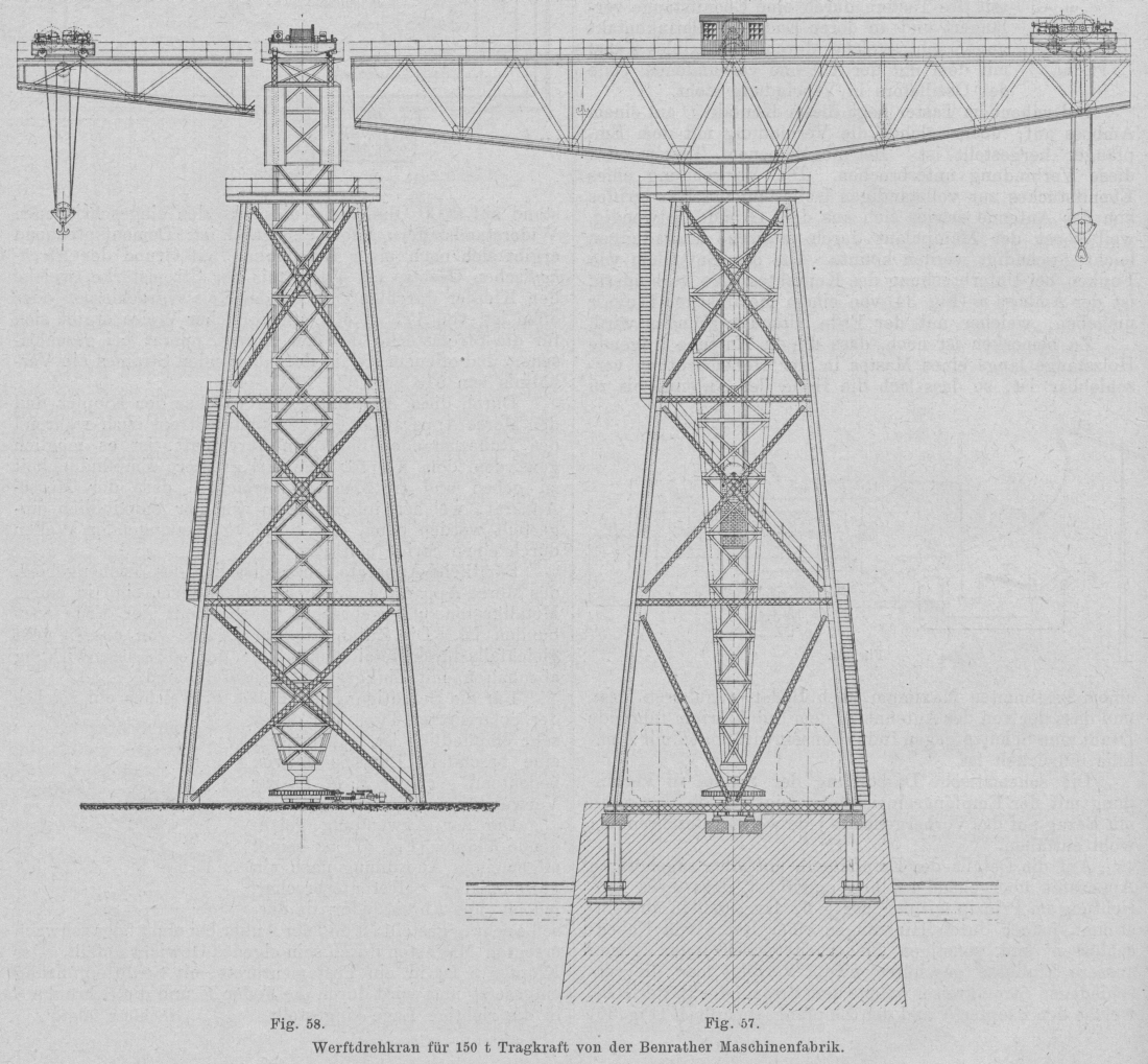 Plan of Beardmore Crane. Year refers to publication year of journal, no known earlier publications.